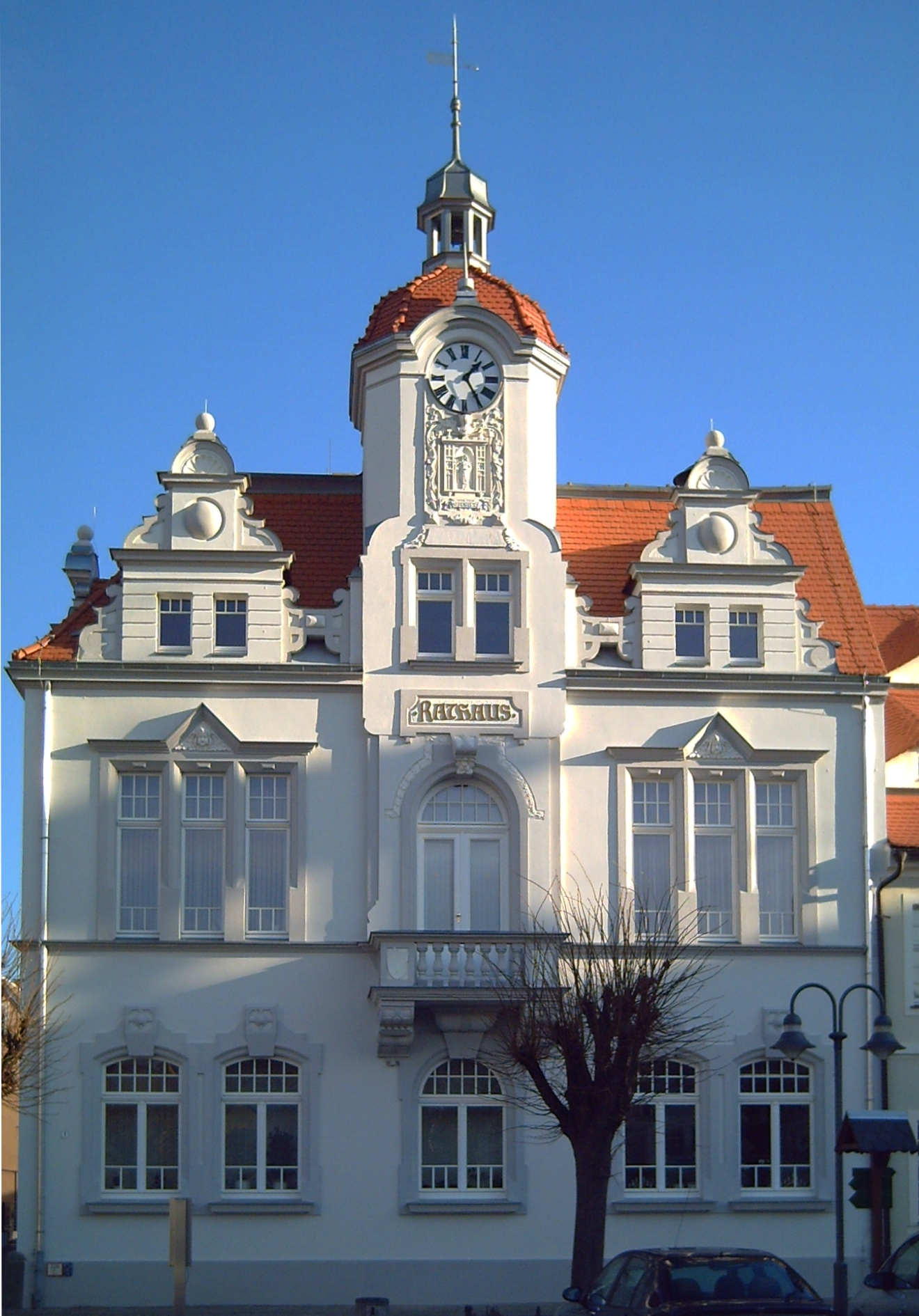 Townhall of Ostritz after reconstruction in 2008